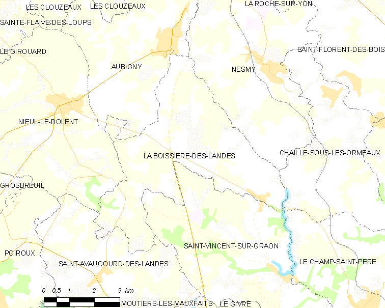 Map of French municipality La Boissière-des-Landes